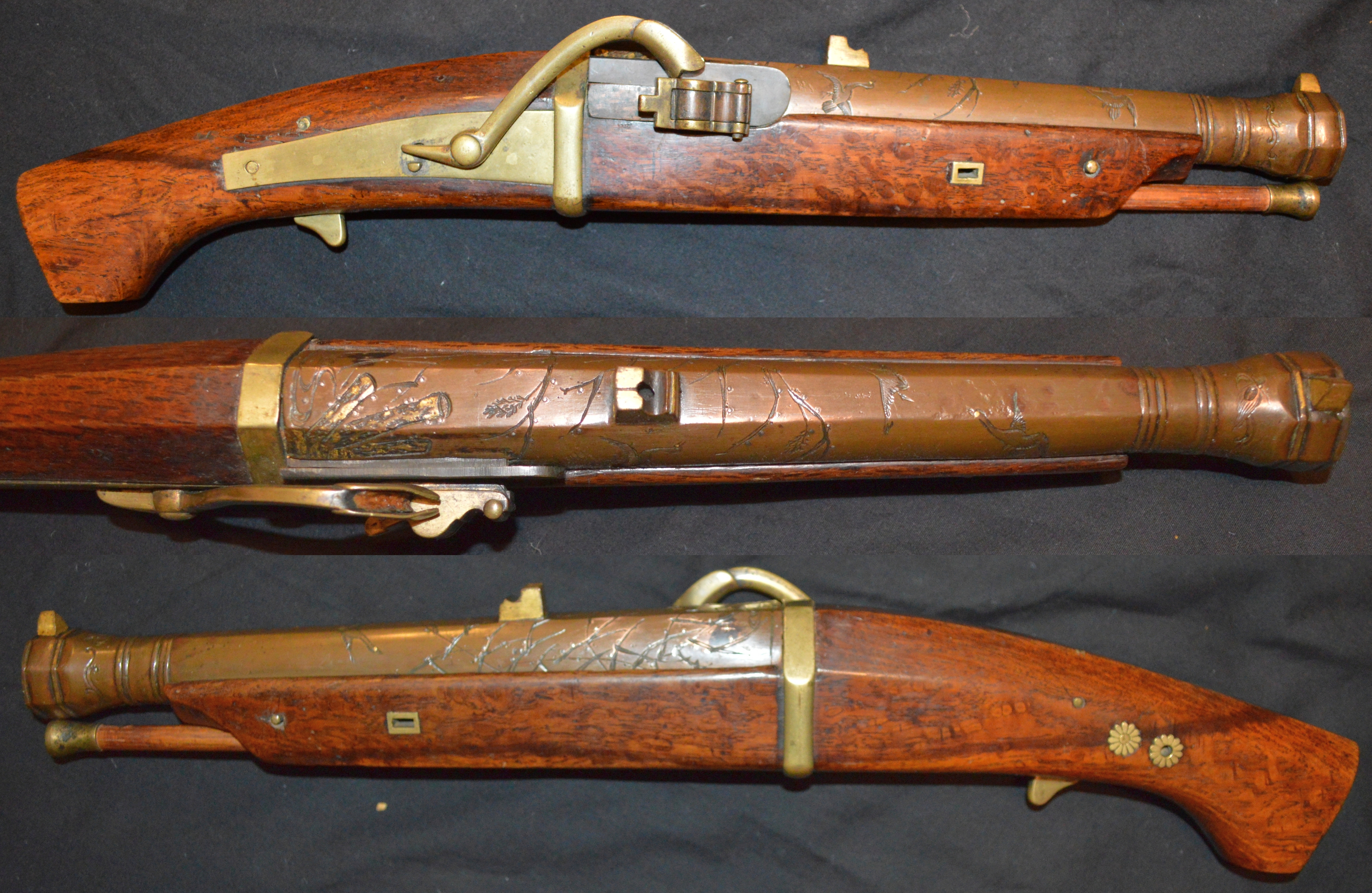 Japanese matchlock pistol, bronze barrel deeply engraved with golden and silver inlays of flying birds, grass, and a pattern in the shape of a birds foot on the right side at the breech with golden post front and notch rear sights and small round silver and gold inlays. Lockplate, band at the breech, trigger, and floral side pieces are brass, hardwood stock, wooden ramrod with brass tip, 17in.